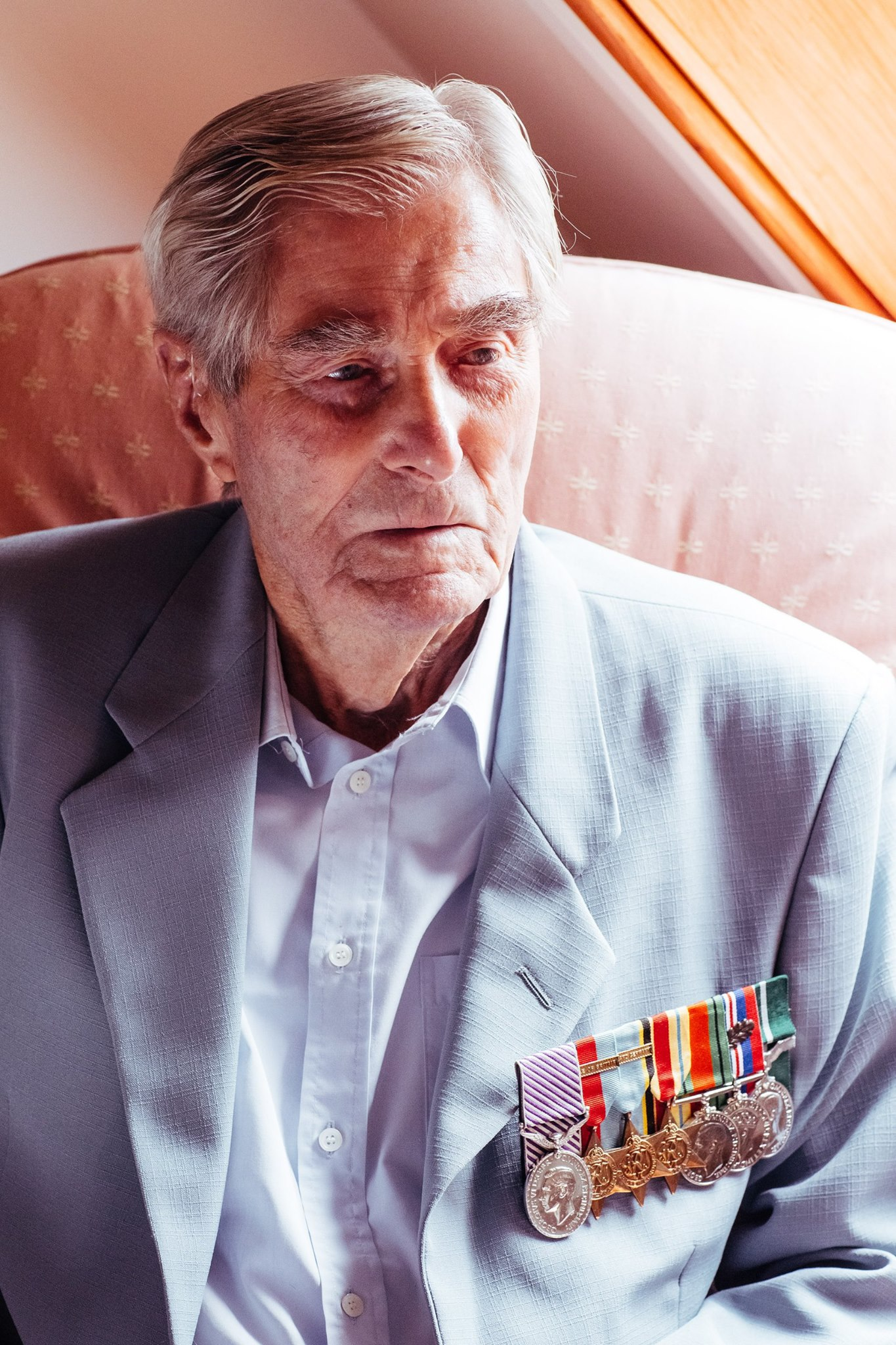 Portrait photo of Paul Farnes.